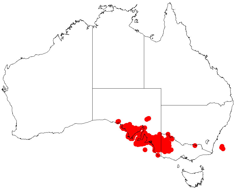 Acacia spinescens occurrence data from Australasian Virtual Herbarium downloaded from on December 8 2018